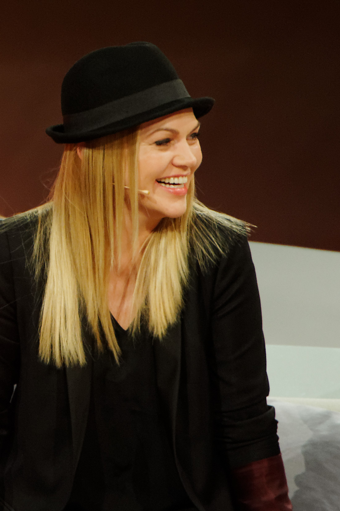 Wetten, dass.. ? am 23. März 2013 in der Stadthalle Wien The making of this document was supported by Wikimedia Austria. Anna Loos